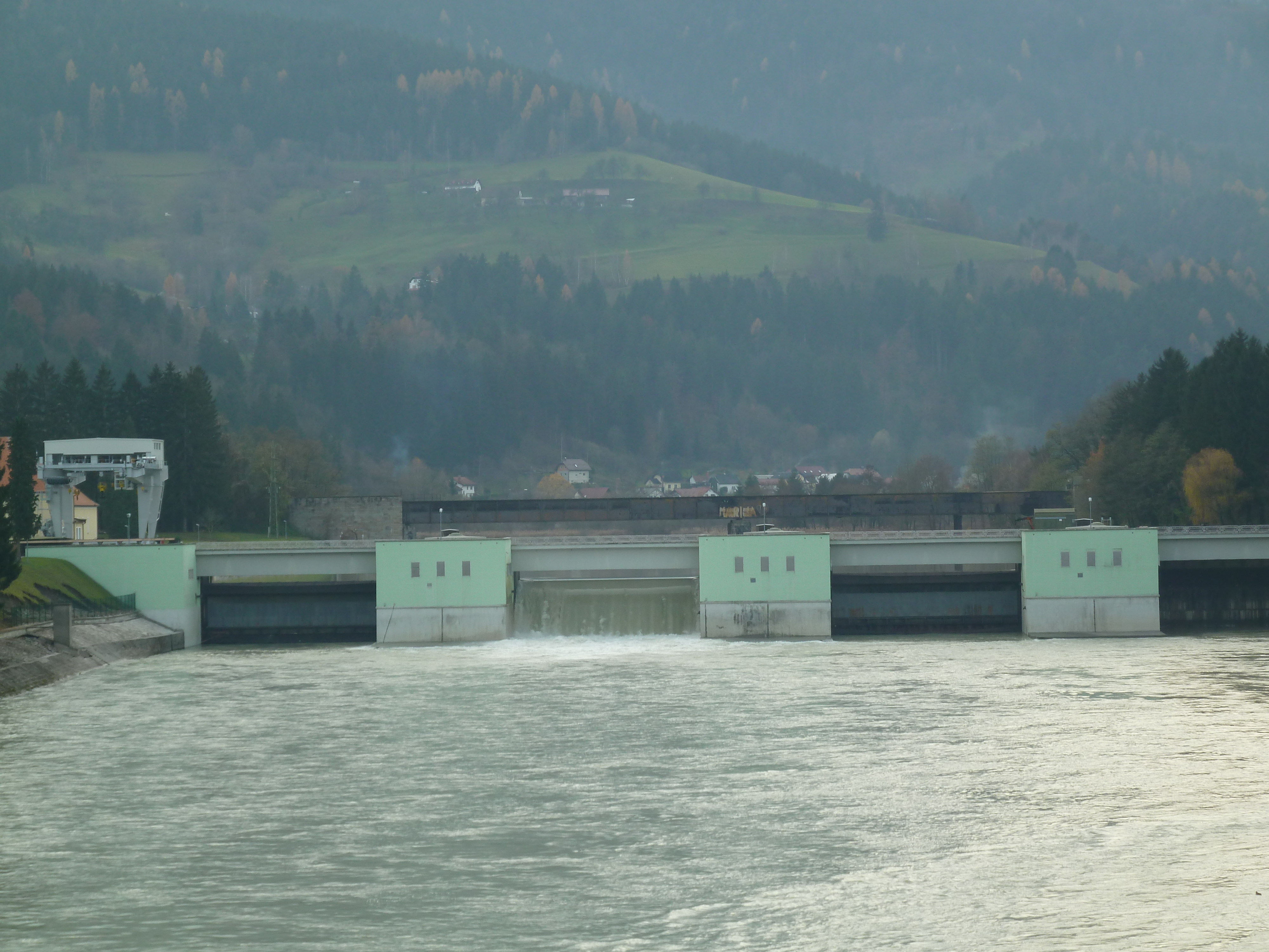 First of eight hydro powerplants on Drava River in Slovenia.